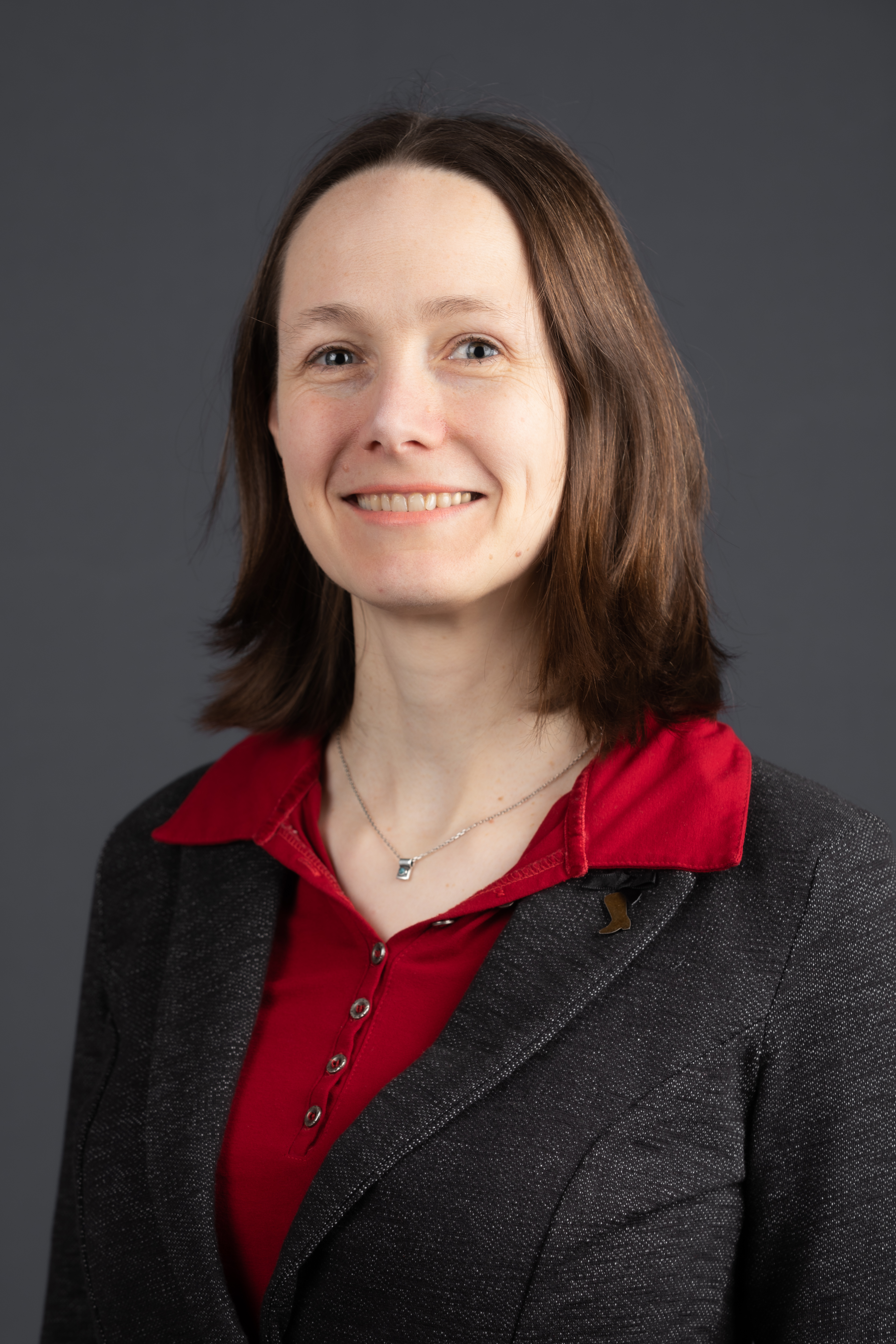 Ingrid Nestle, German Bundestag, Berlin, Febuary 2020